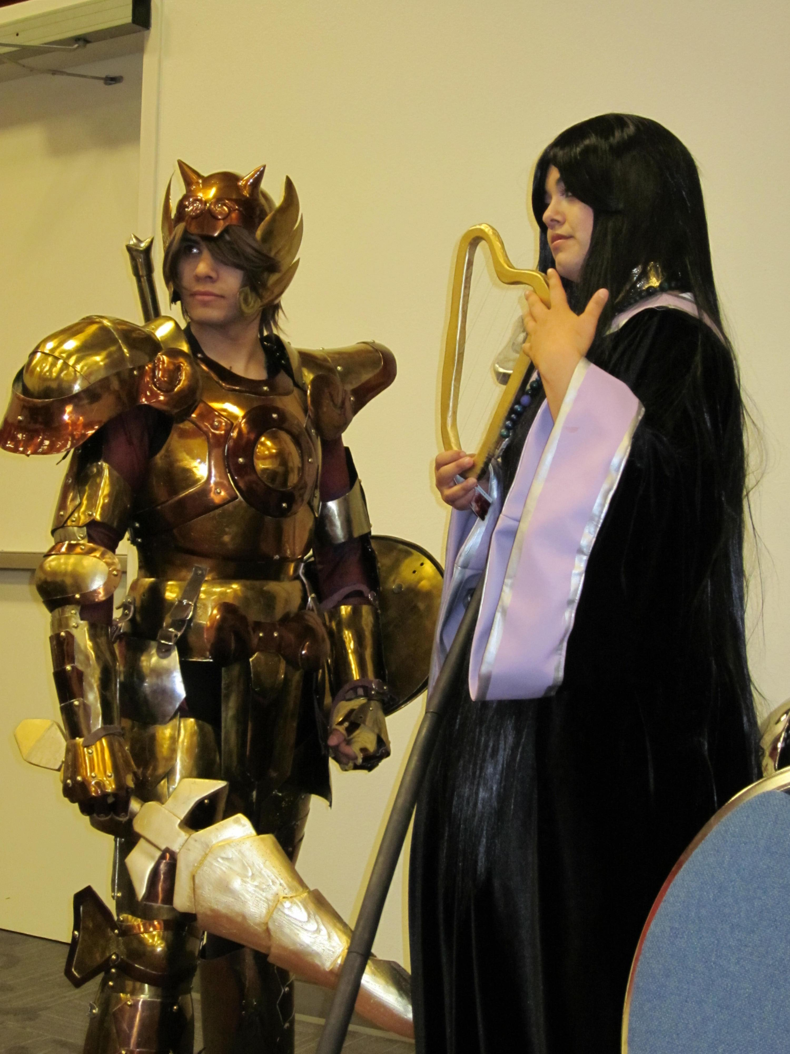 Cosplayers portraying Pandora and Libra Dohko from Saint Seiya at FanimeCon 2010 in San Jose, California. Please note that the filename is wrong.